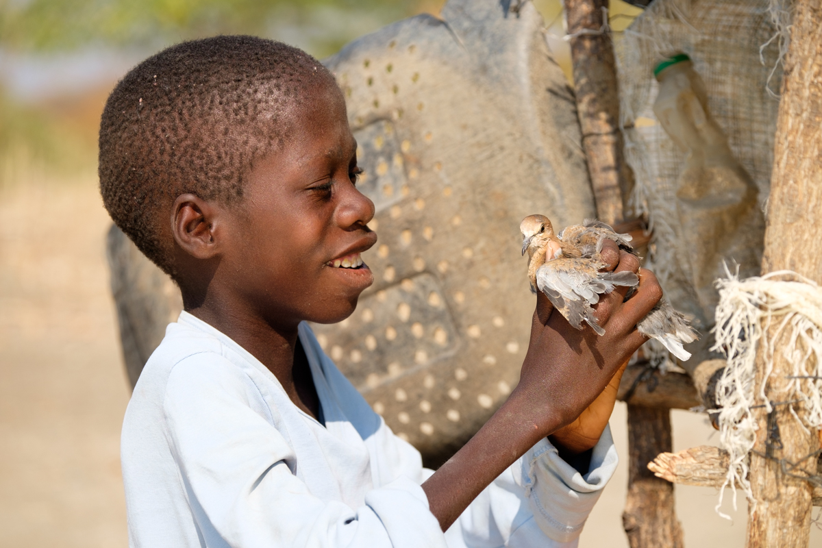 Shepherd (13y) is disabled. His best time of the day is feeding his 9 birds. He keeps them in a small birdhouse.